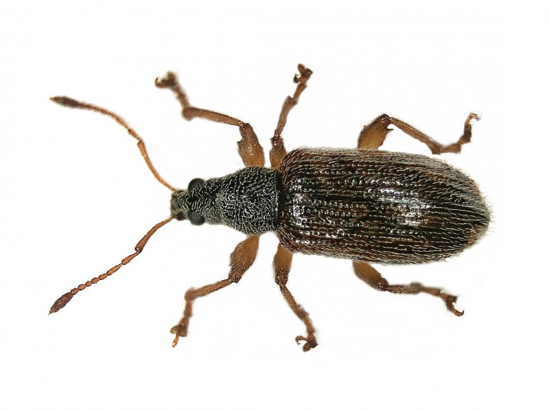 Phyllobius oblongus (Curculionidae) - (imago), Arnhem - Schuytgraaf, the Netherlands